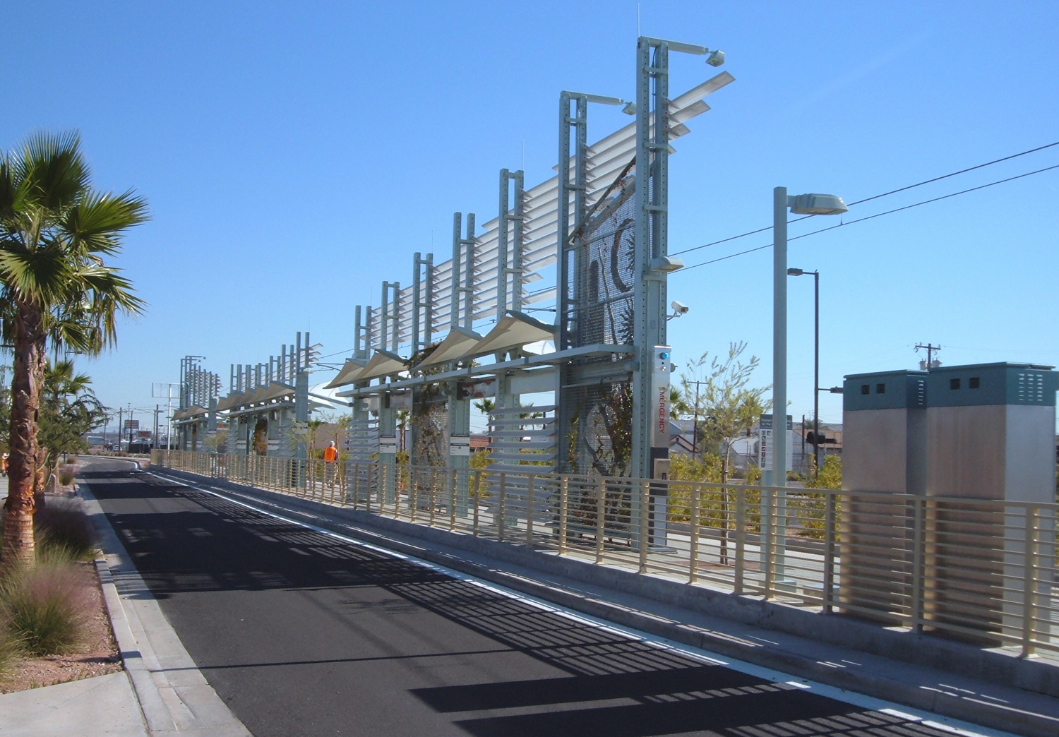 Photograph of the 24th Street (or Washington at 24th Street) Station of METRO Light Rail that serves the Phoenix area, Arizona, USA. This is a photograph of the eastbound platform, about 400 feet south of the westbound platform. This photograph was taken during the light rail's grand opening celebration on December 28, 2008.